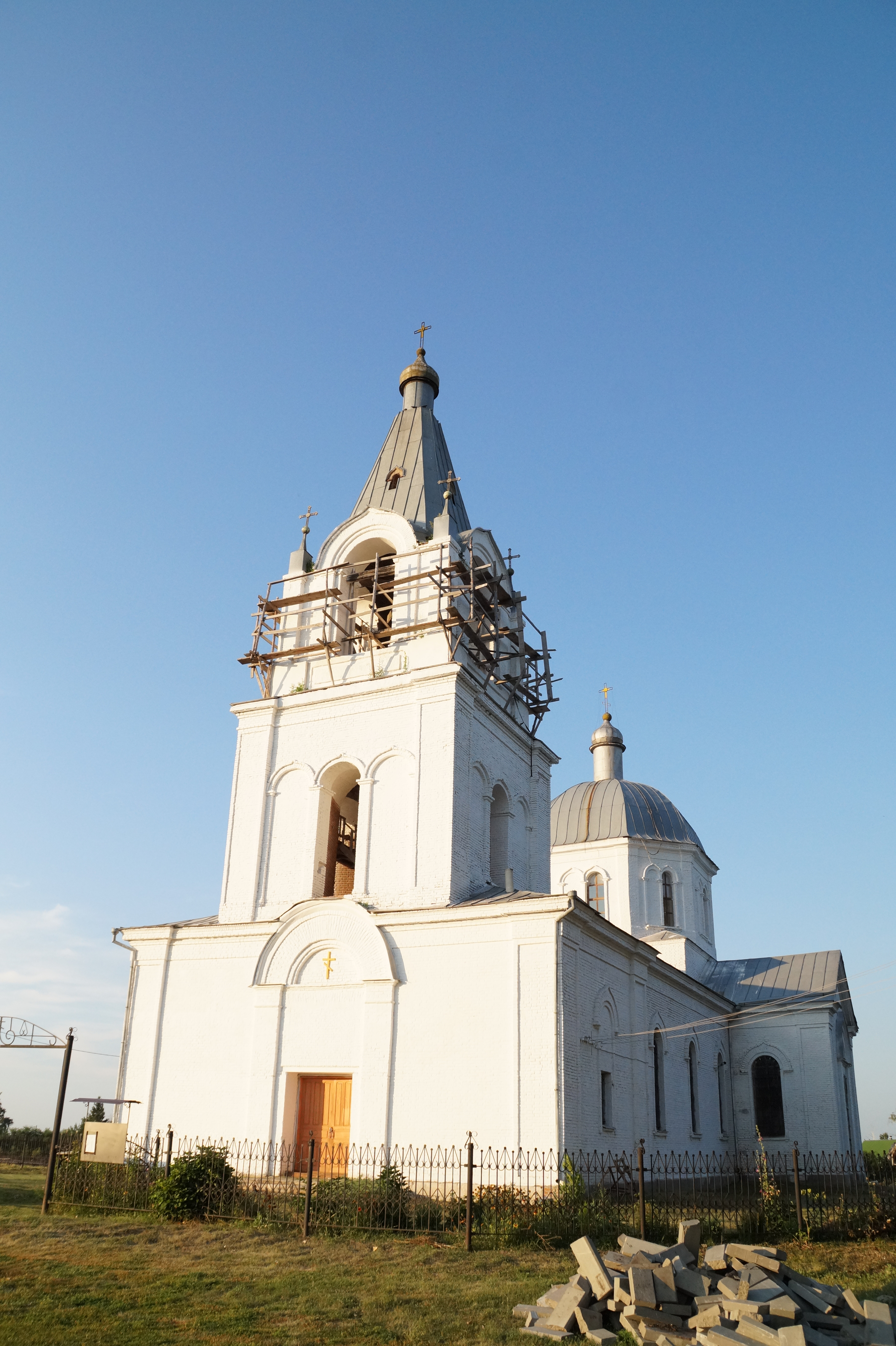 Voznesenskaya Chirh i village Beryozovka of Anna district, Voronezh region